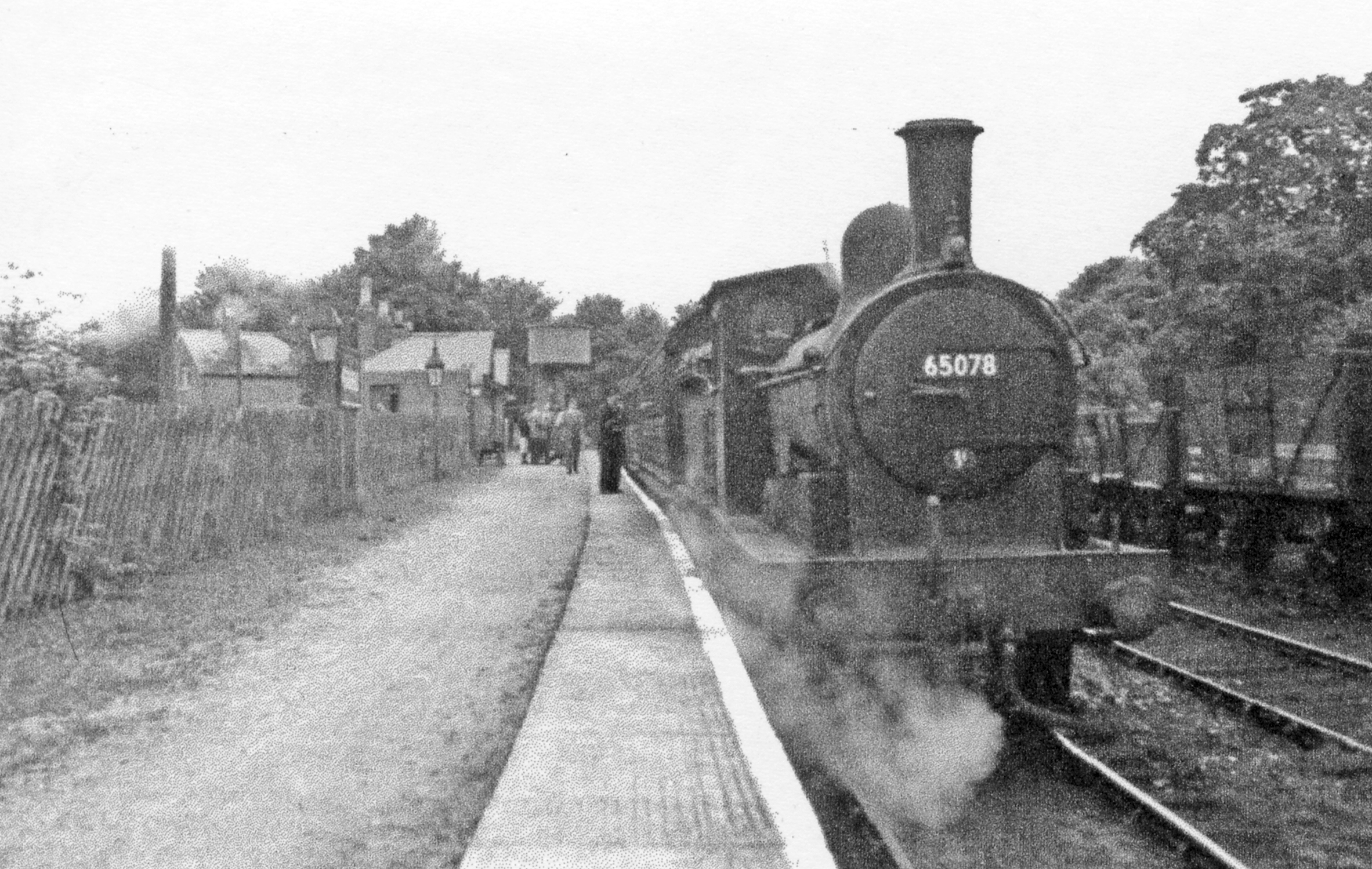 Wearhead station and train for Bishop Auckland on Last Day, 1953View NW to buffers, with train headed by ex-NER Worsdell class C LNER J21 No. 65078 (built 4/1891 as No. 1554, renumbered in 1946 as 5078, withdrawn as BR 65078 in 2/57). The branch was closed completely to Wearhead that day (27/6/53), but remained open for goods as far as St Johns Chapel until 2/1/61. (See also my NY8539 : Last Train waiting to leave Wearhead for Bishop Auckland).